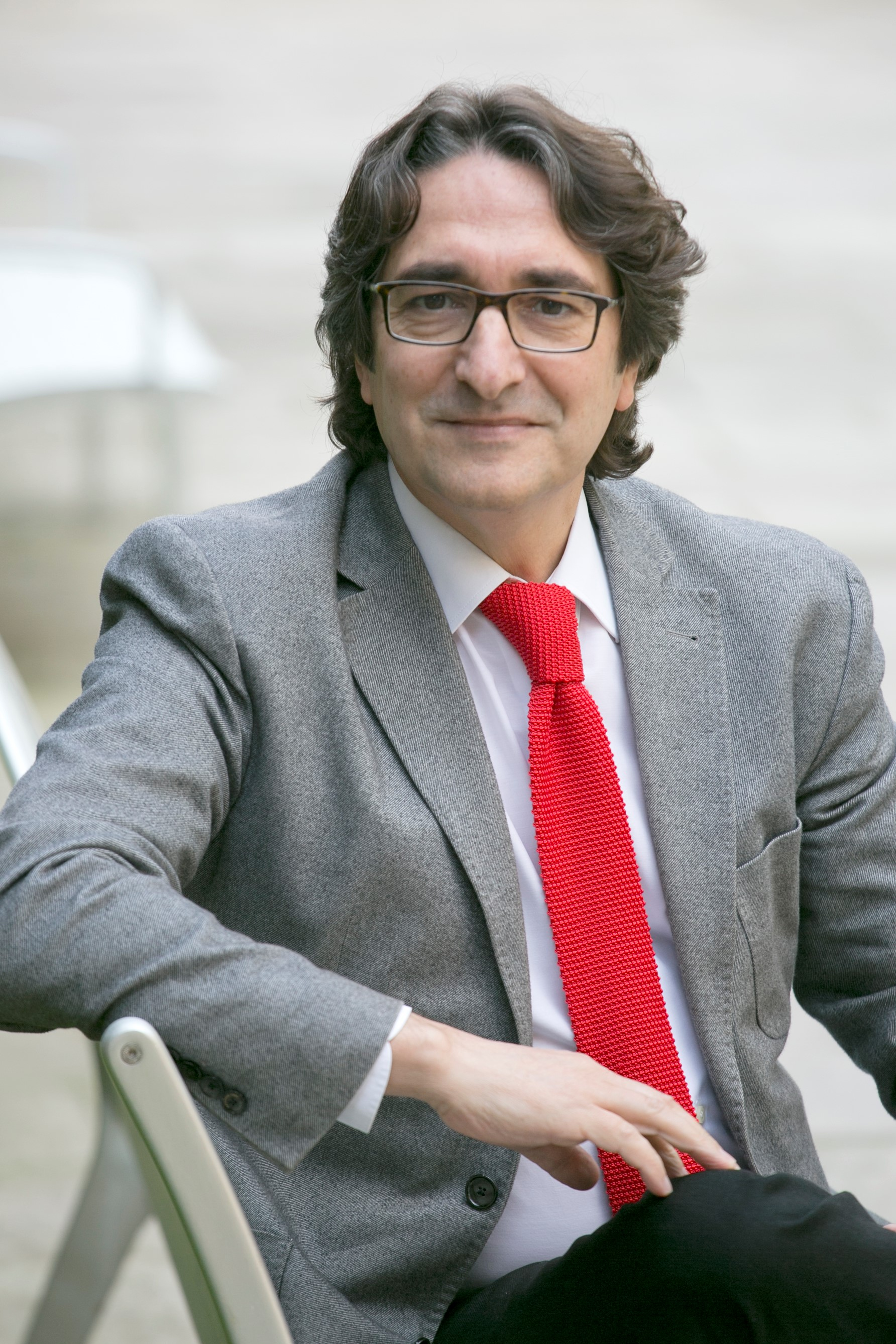 David Perez portrait